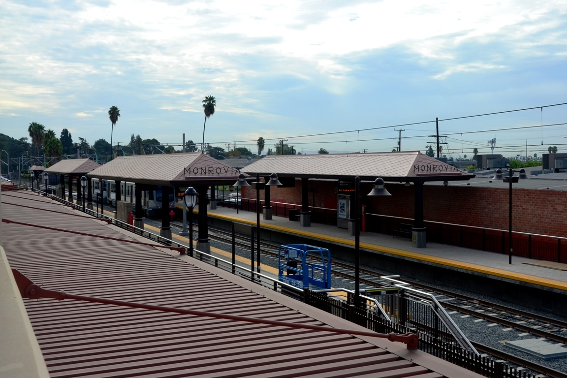 This is a photo of Monrovia station on the LACMTA Gold Line.